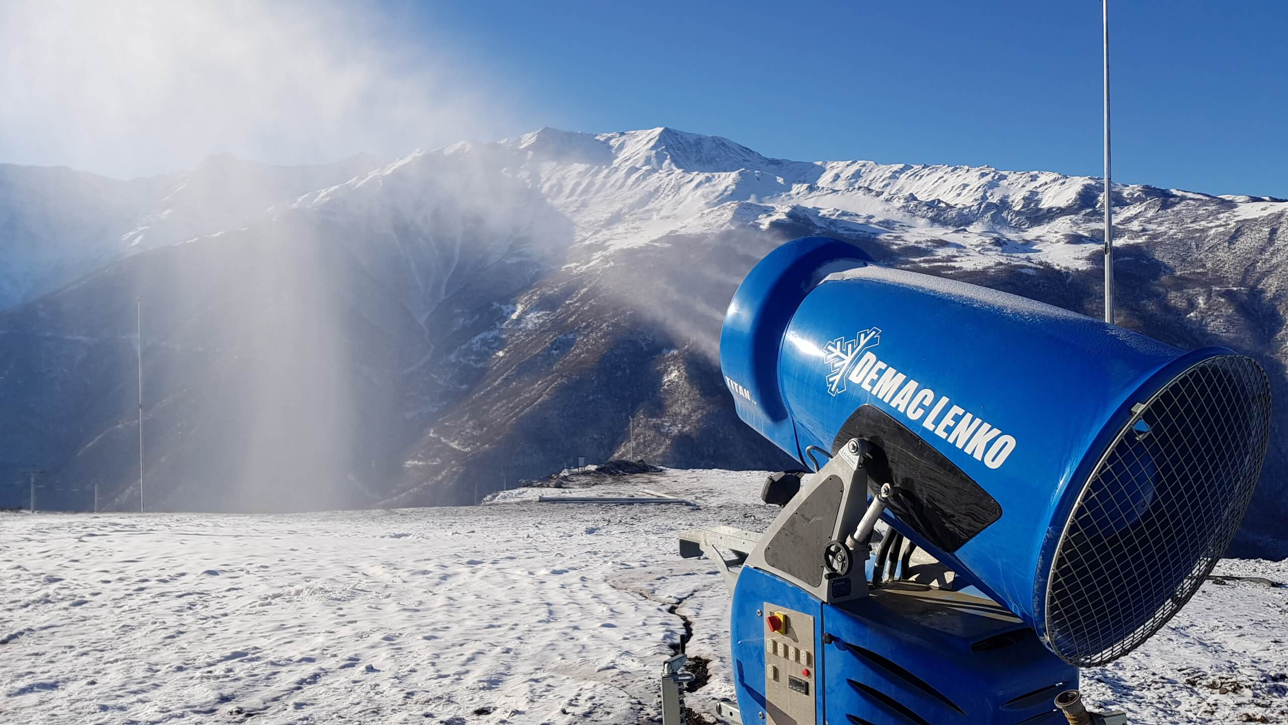 Снежная пушка (снегогенератор) DemacLenko Titan 2.0 MMK. Первичное оснежение на горнолыжном курорте Ведучи (Чеченская Республика, Россия)